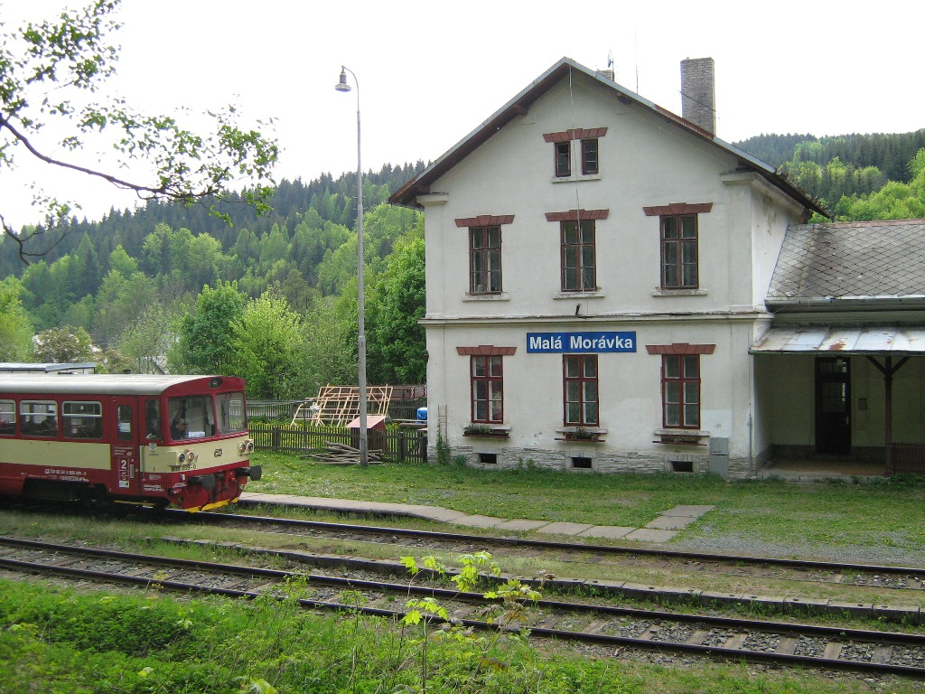 Train in railway station in Malá Morávka, Czech Republic